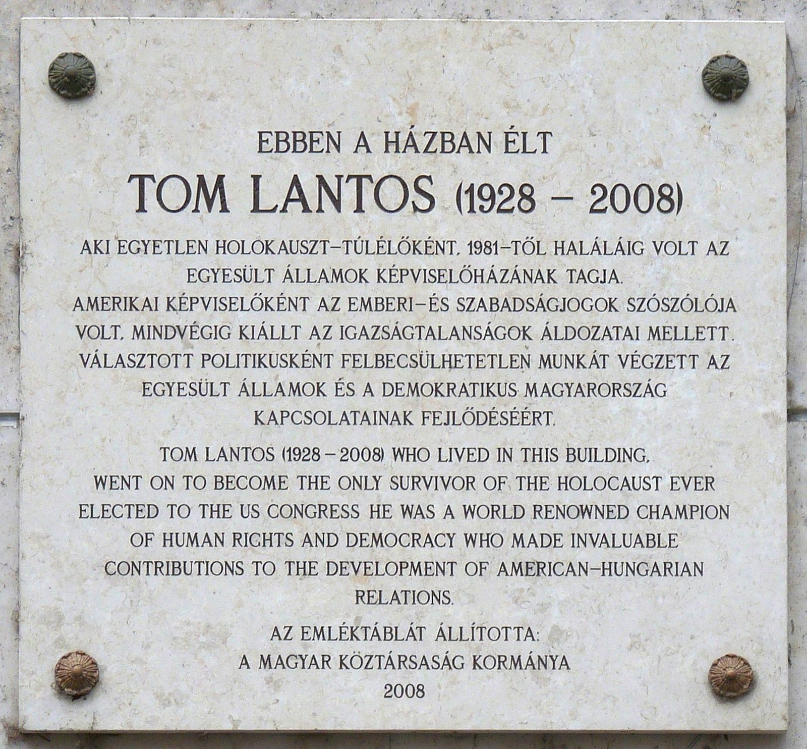 Commemorative plaque to Mr. Tom Lantos (1928–2008) Hungarian born American politician, Democratic member of the United States House of Representatives. It was affixed to the wall of the house where he lived until 1947 and unveiled on September 25, 2008. (Budapest, District XIII, Szent István Park Nr 25)